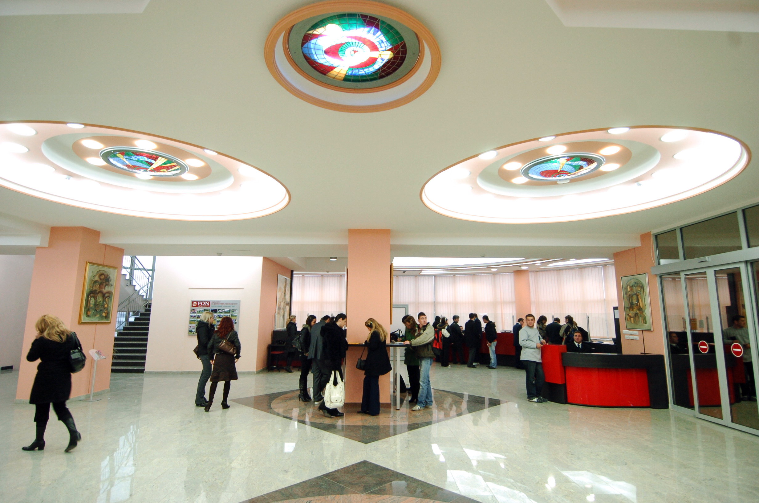 Ground floor of the University building